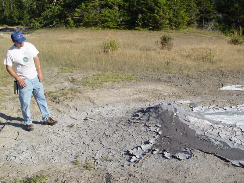 One of about 15 Mud Pots near Fort Bragg, California at the original Glenblair town site.